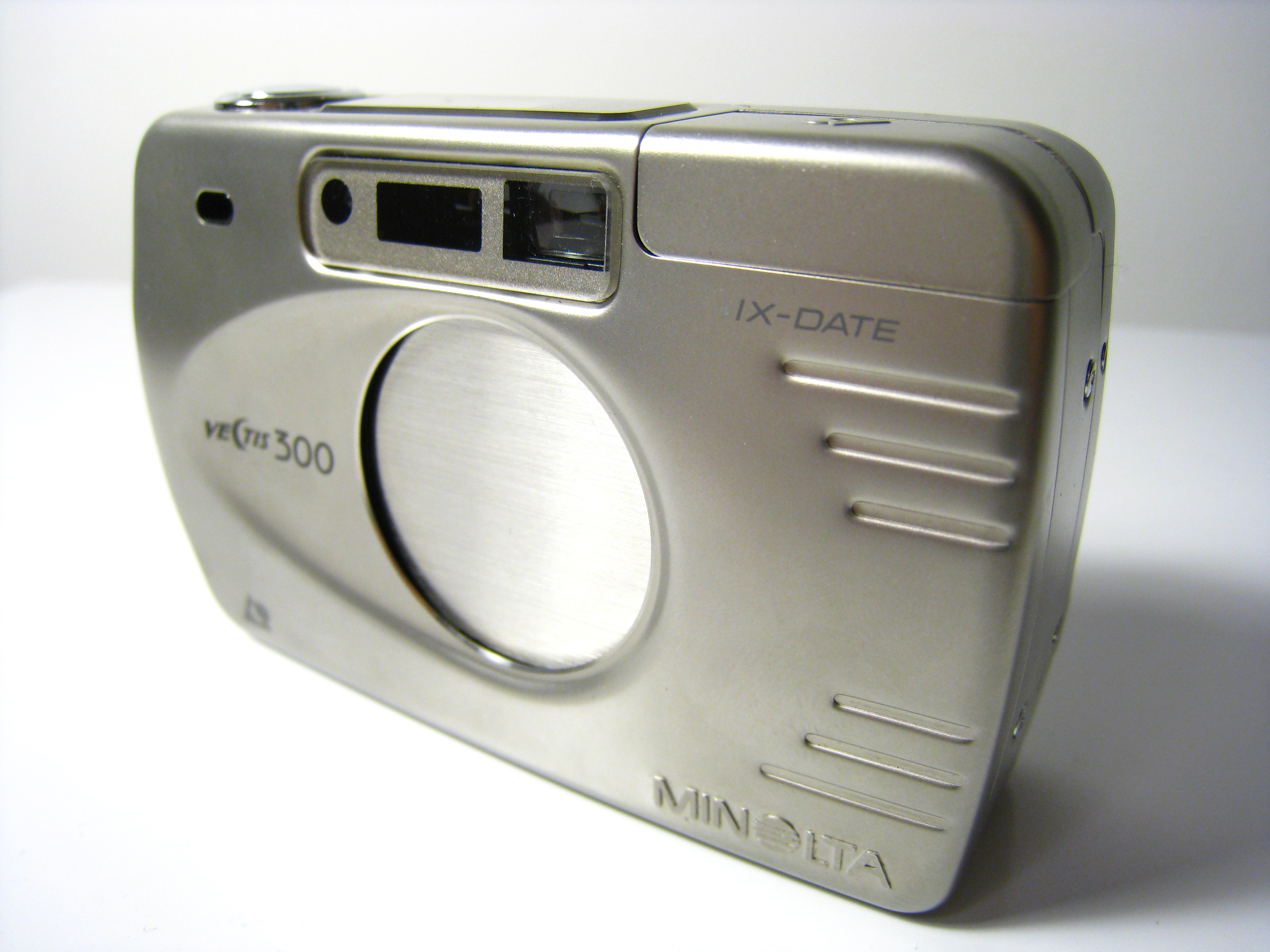 Another camera "gifted" to me. It was purchased in 1999 and was used a handful of times before it was stored away. This camera used the Advanced Photo System (APS) film format which never caught on.